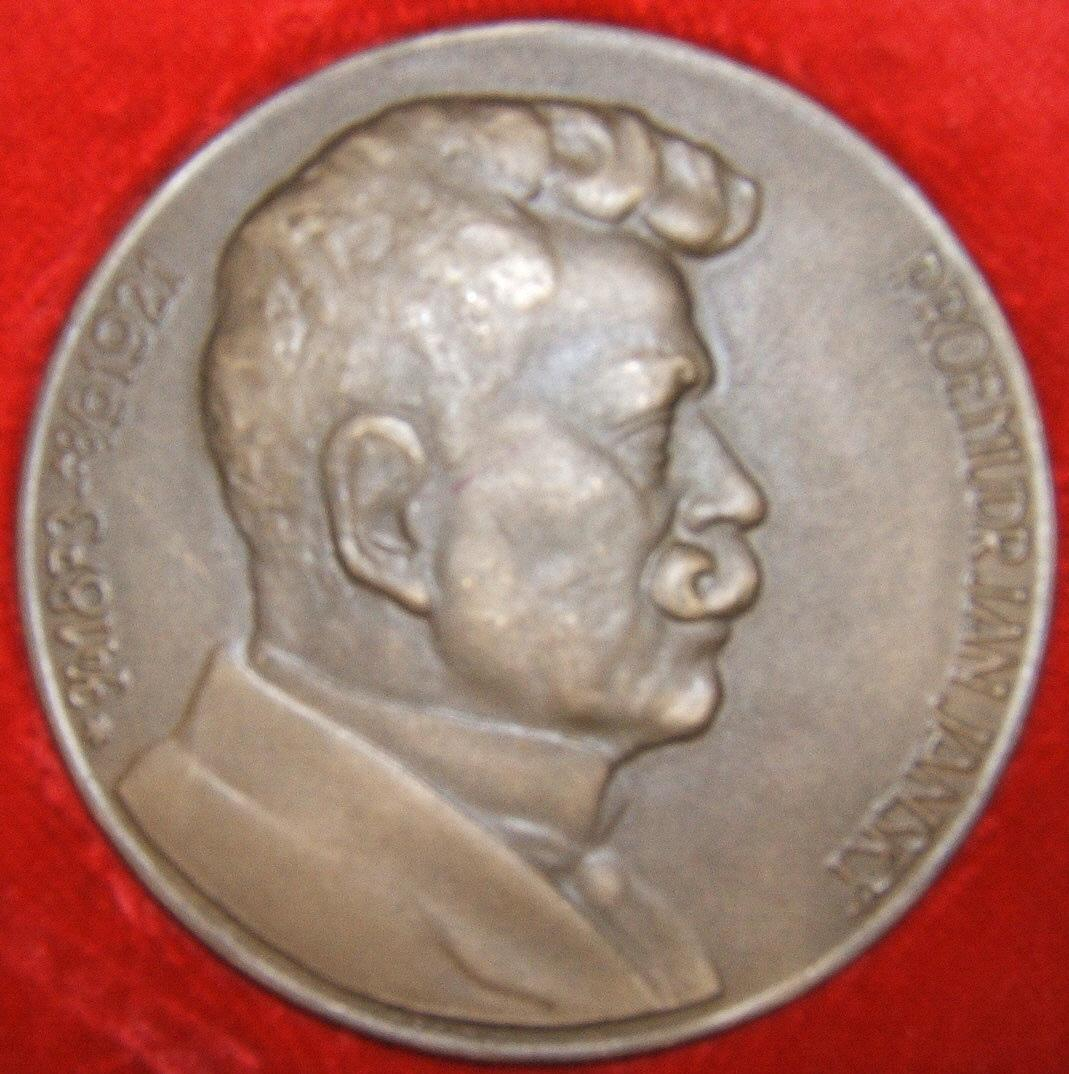 prof. MUDr. Jan Janský on bronze Janského medal